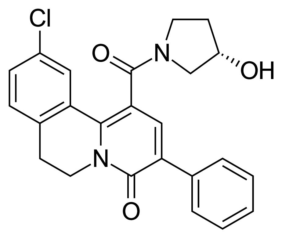 Structure of Ro41-3290